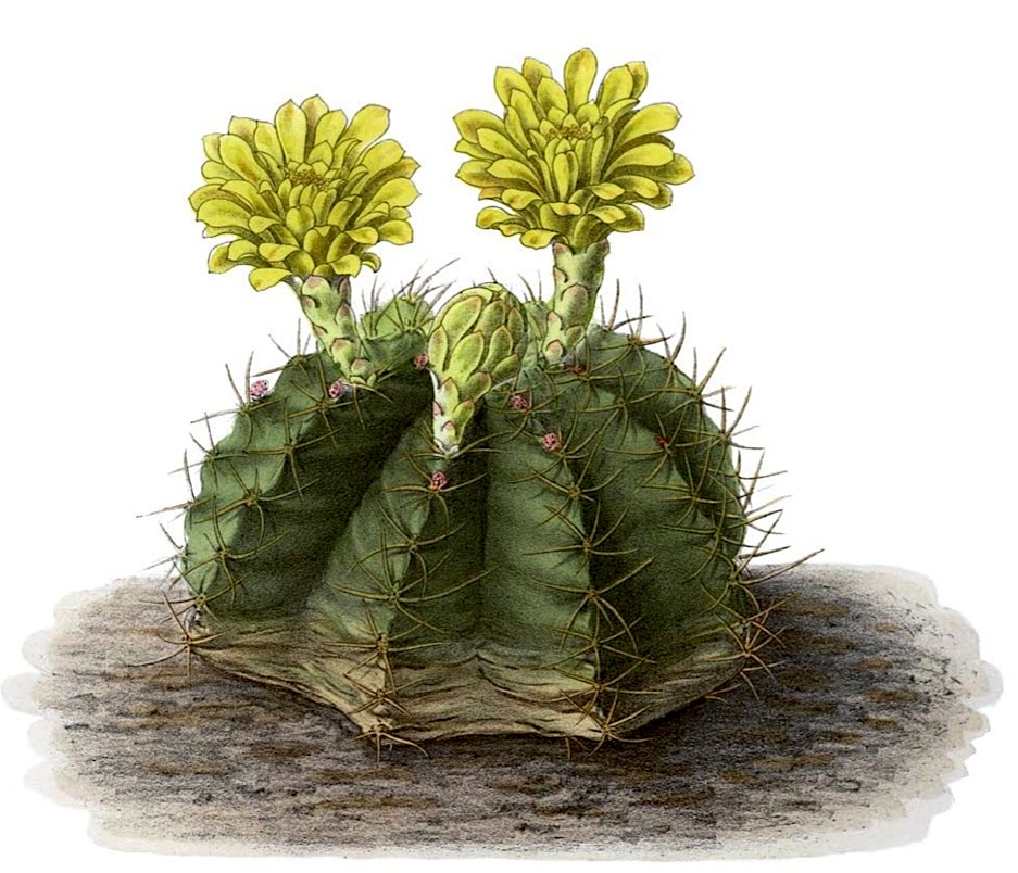 Gymnocalycium mihanovichii